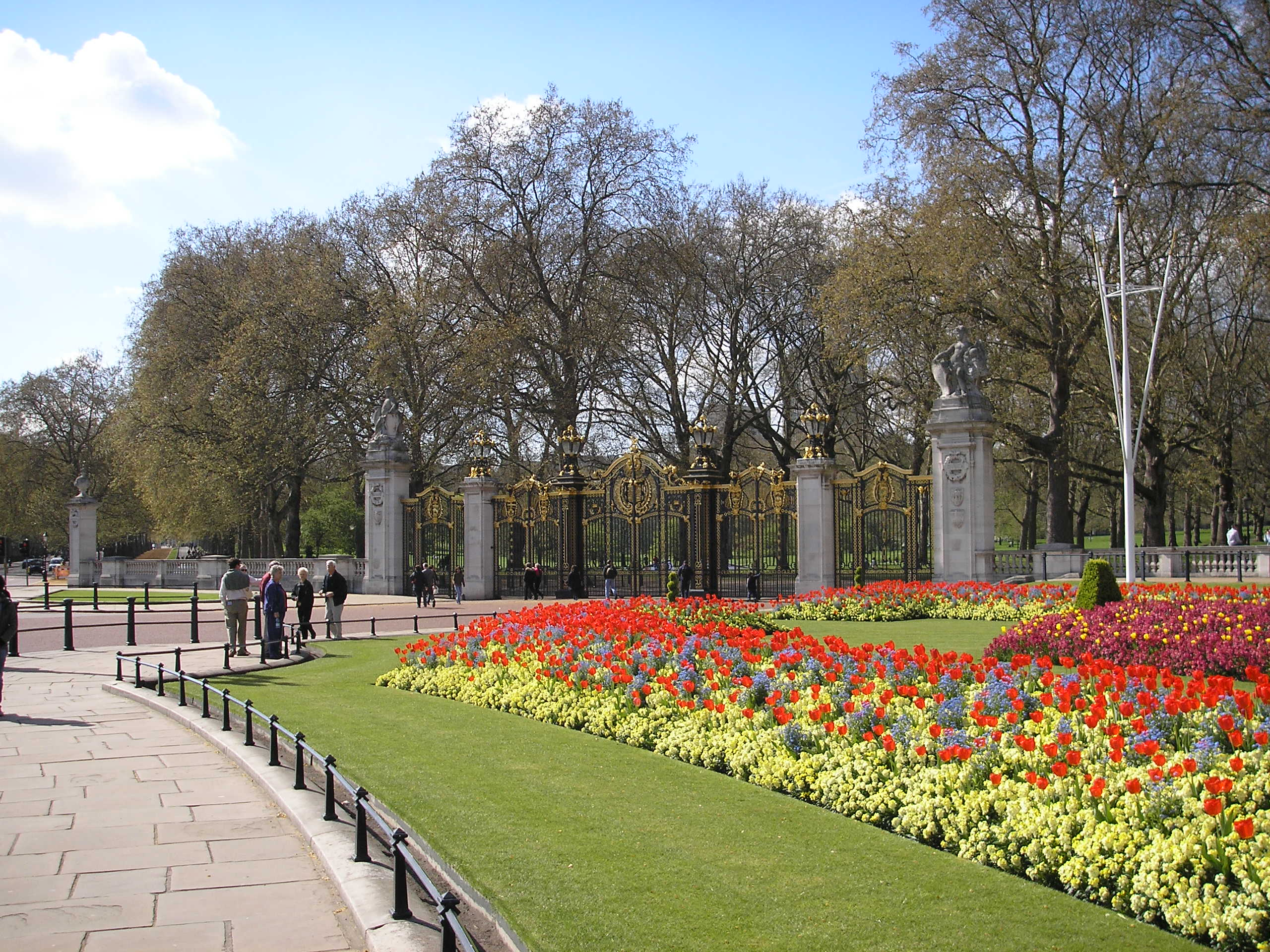 Flower beds at The Mall in London.